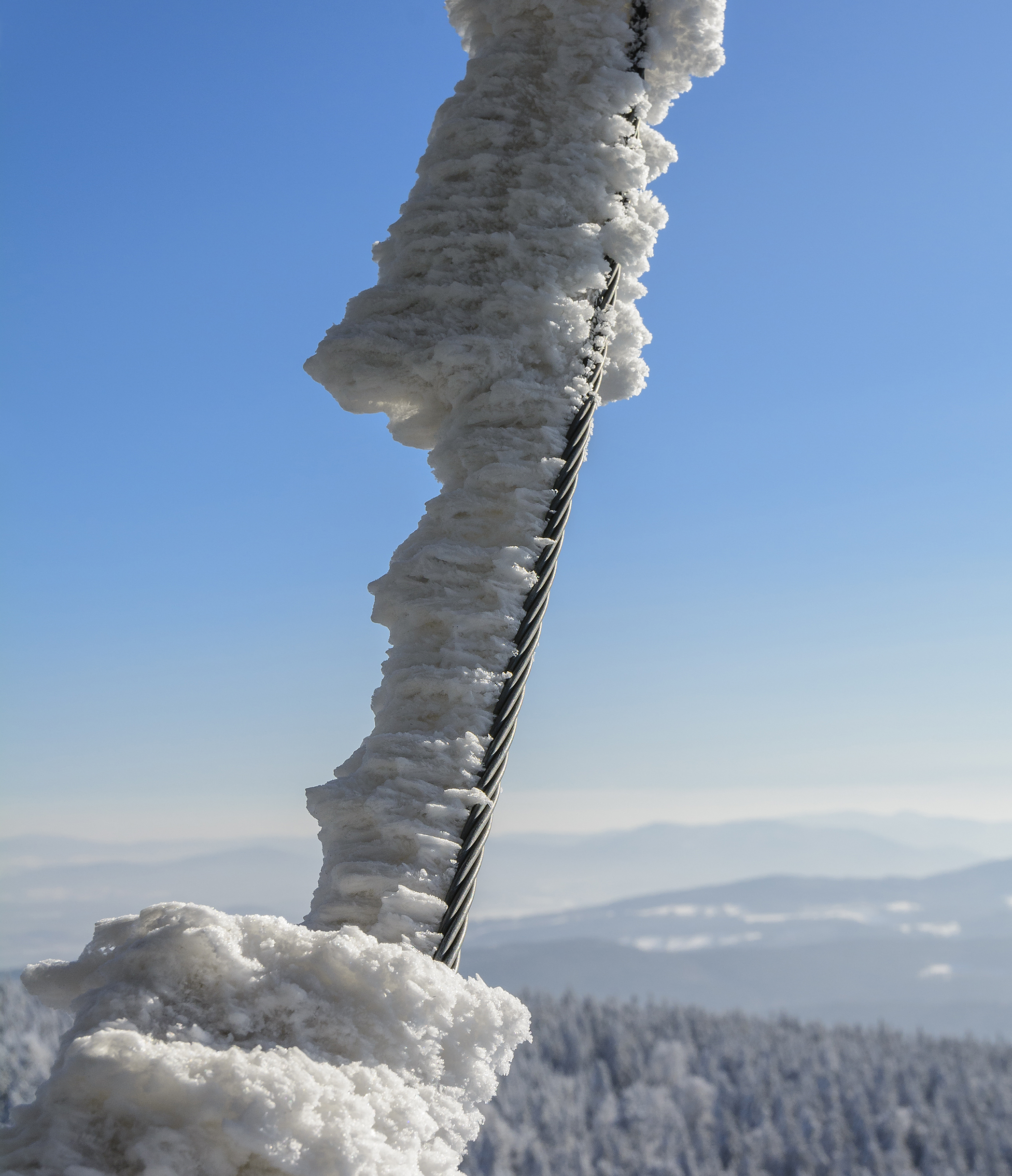 Lookout tower on Borůvková hora (Borówkowa), icing of structure